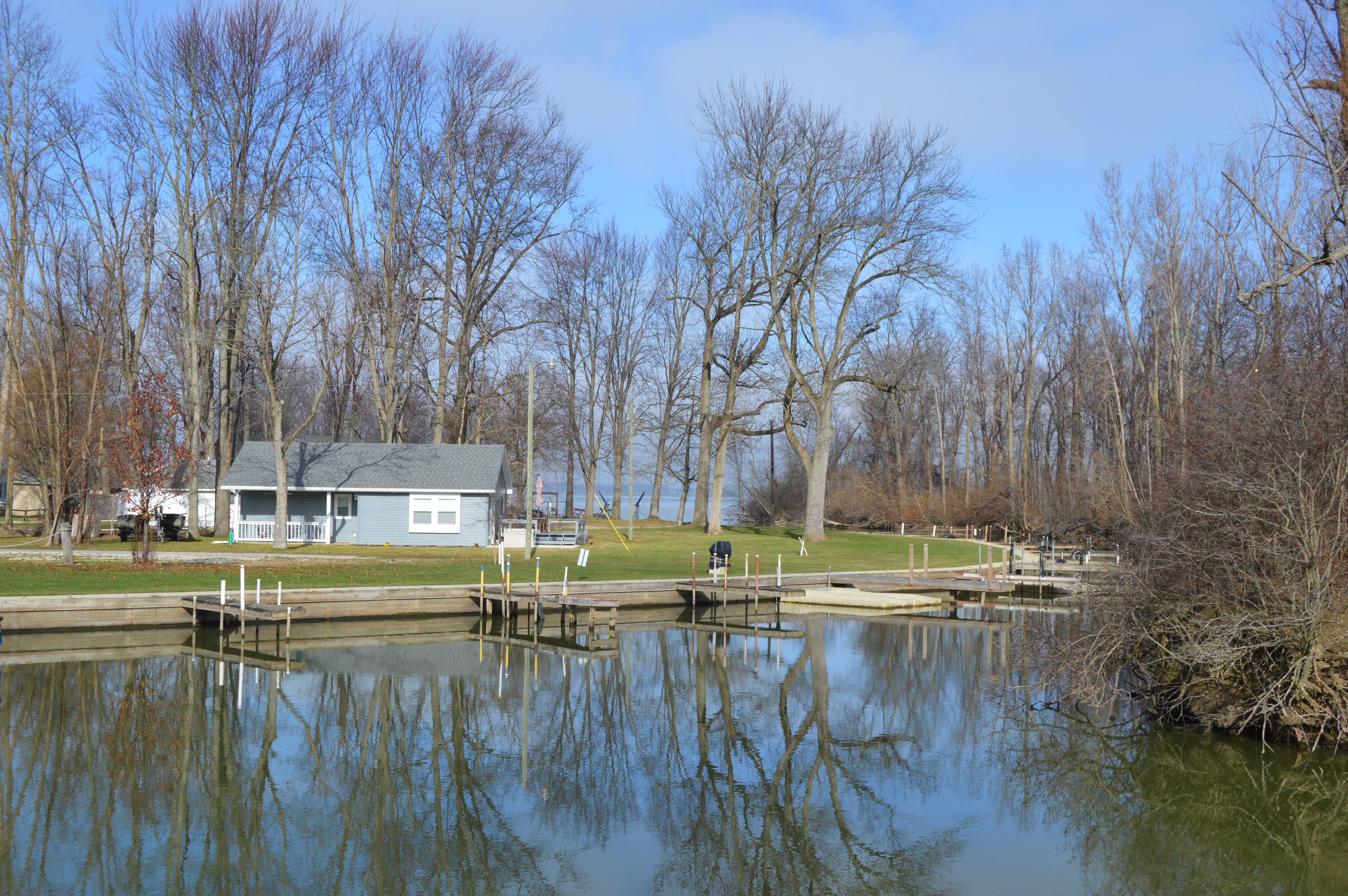 Looking north from Cottonwood Road toward docks on the southern side of Grand Lake St. Marys in northern Franklin Township, Mercer County, Ohio, United States.